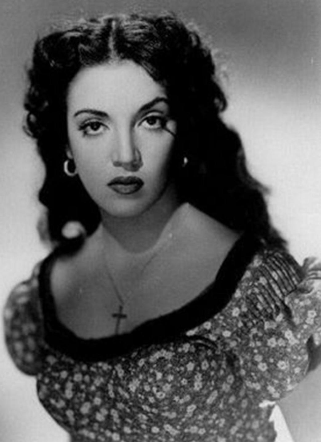 Katy Jurado in a promotional picture of the film San Antone (1953)